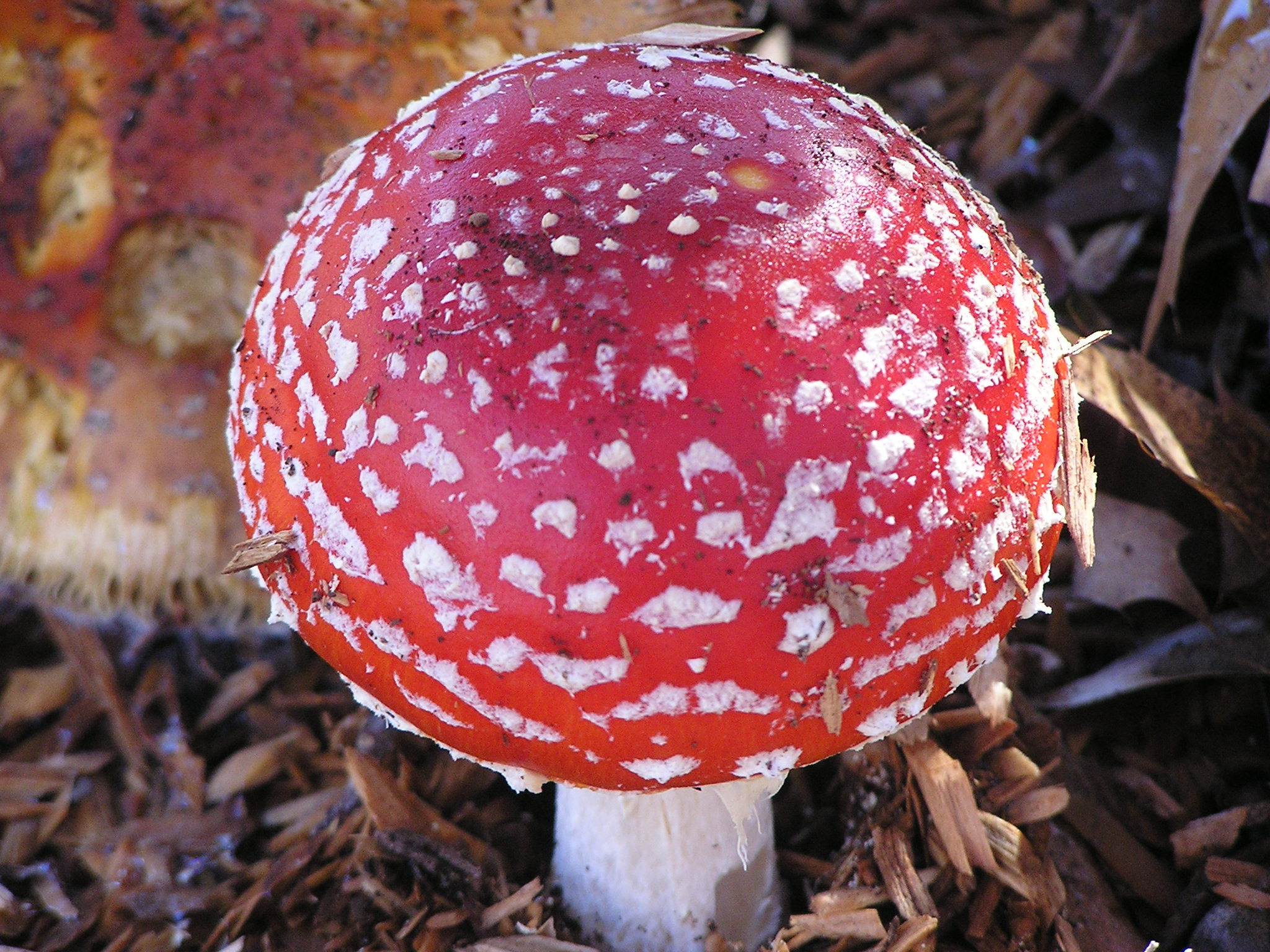 Mushroom or toadstool (Amanita muscaria) growing in Canberra, Australia during July 2005 (winter).